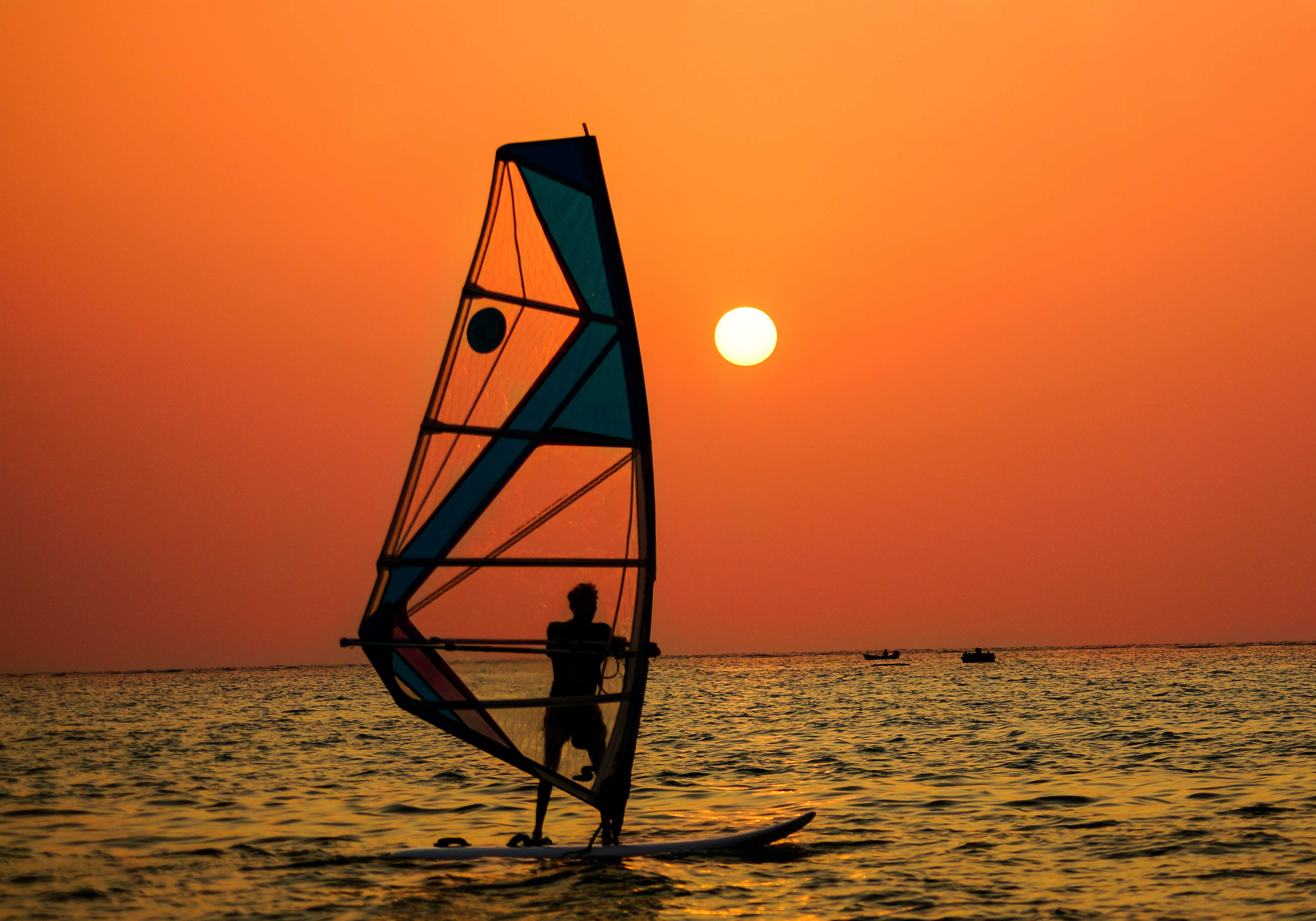 Kavaratti Island, Lakshadweep, India